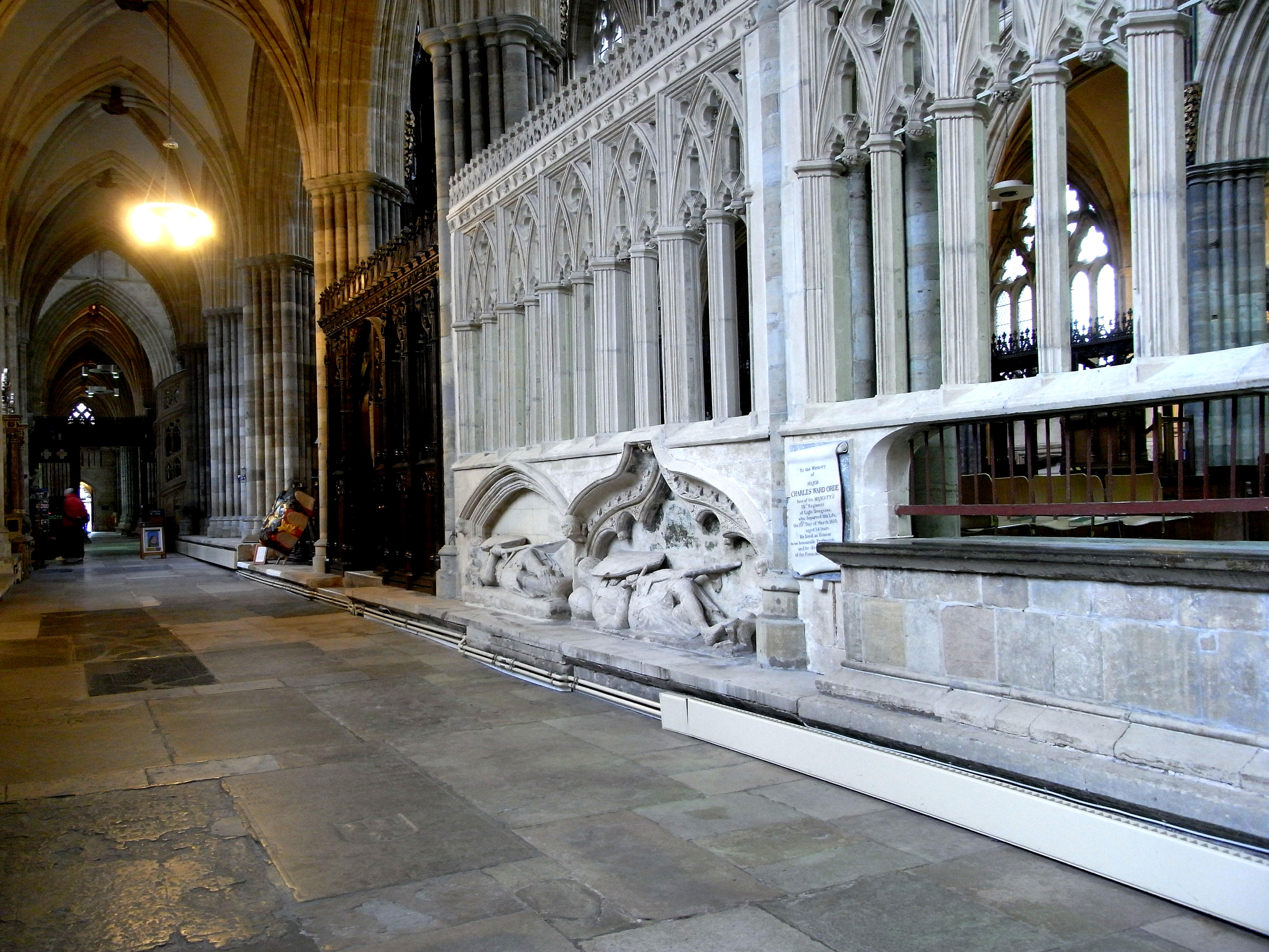 Cross-legged effigies of two knights, believed to represent Sir Henry de Raleigh (d.1301), left, and Sir Humphrey de Bohun, order uncertain. South choir aisle/ambulatory, Exeter Cathedral, looking westwards. See: Orme, Nicholas, "Whose Body?", published in "The Cathedral Cat, Stories from Exeter Cathedral", 2008, p.25; Little, A.G., & Easterling, R.C., The Franciscans and Dominicans of Exeter, published in Monograph no.3, History of Exeter Research Group, Exeter, 1927, pp.40-5, 67-75